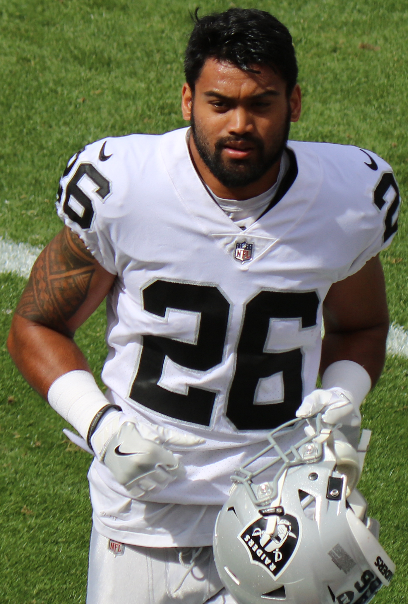 Shalom Luani, a player on the National Football League.